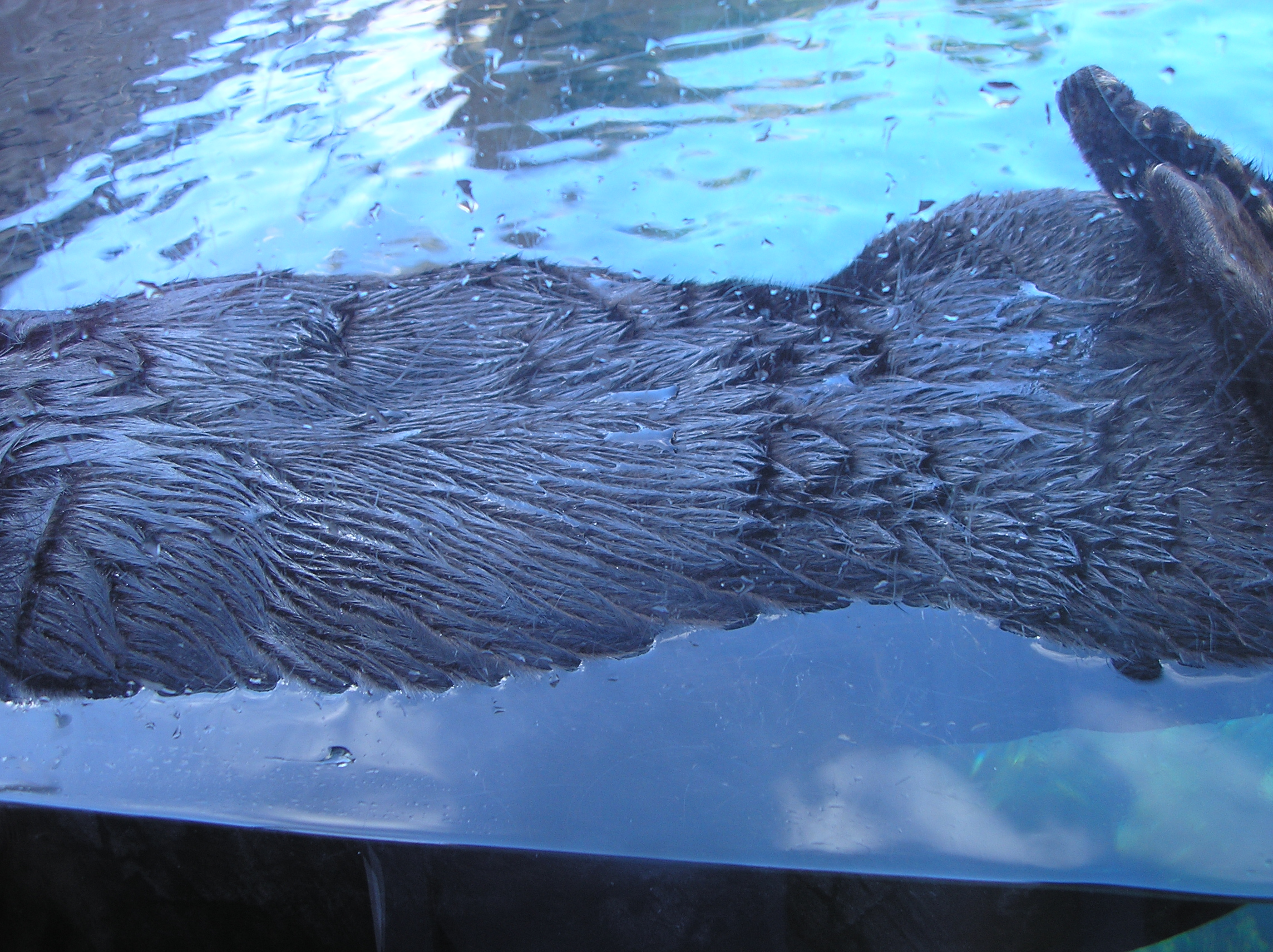 Sea Otter, wet fur